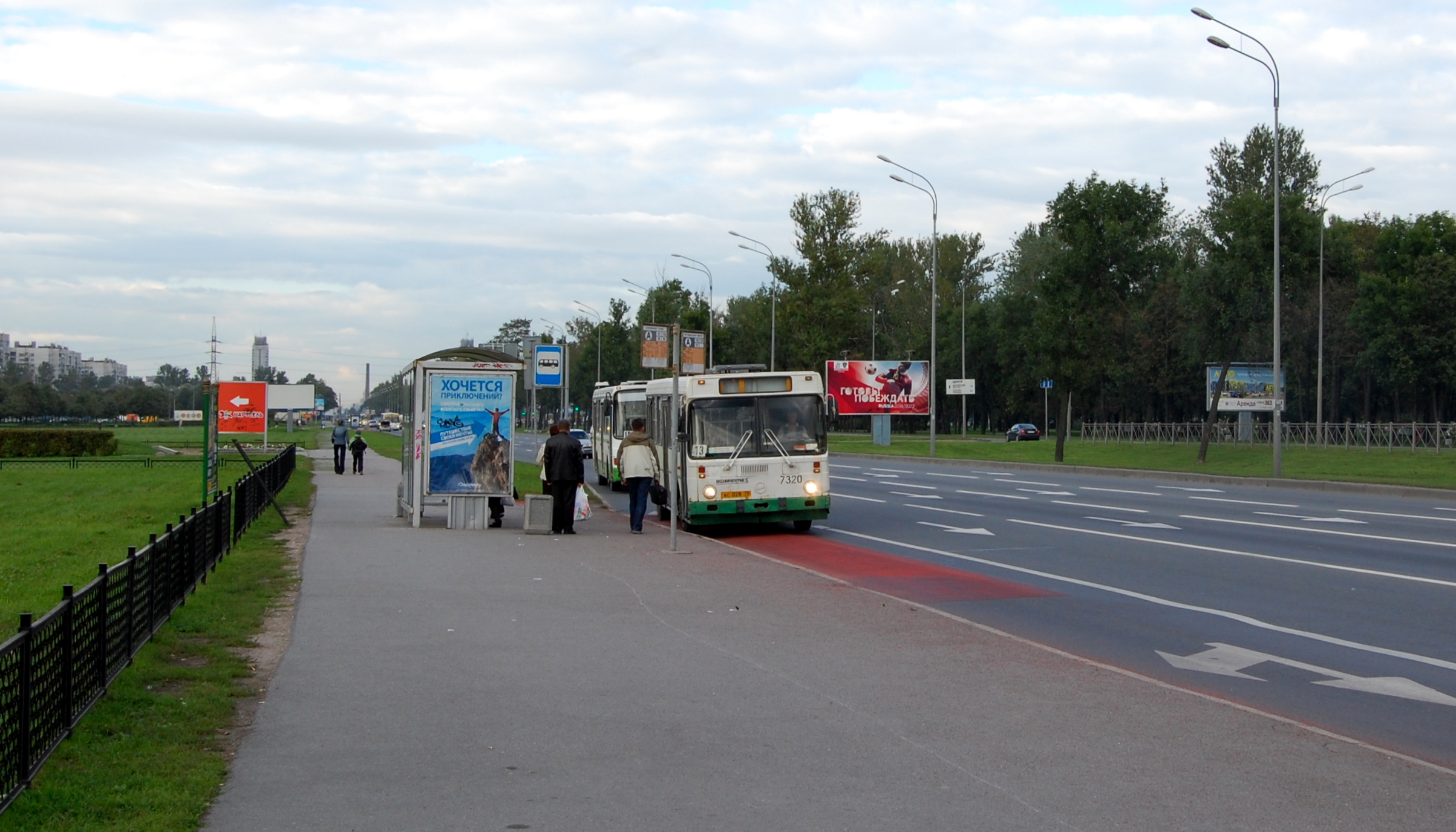 Pulkovskoye Shosse